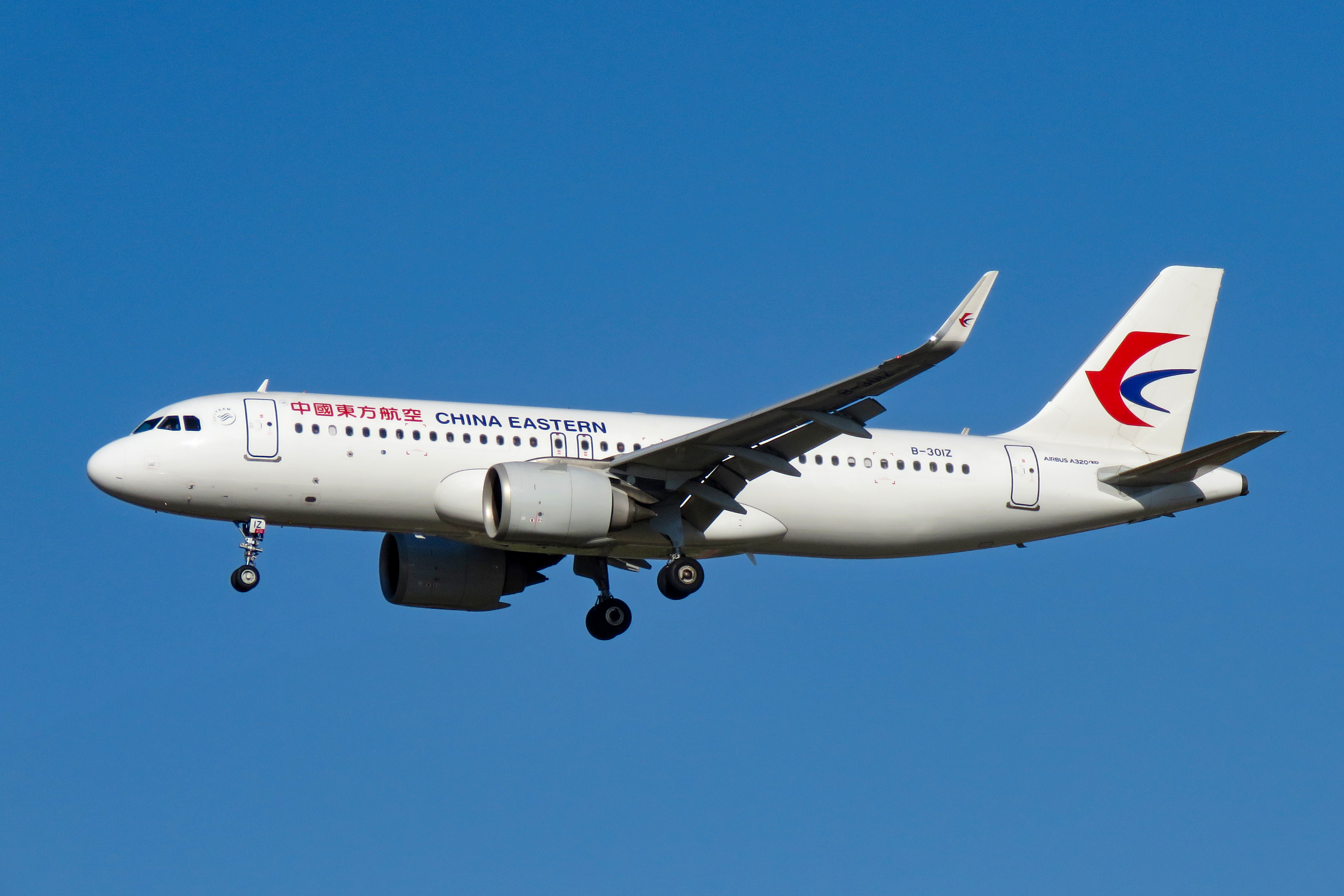 China Eastern 2831 from Nanjing. Another neo...